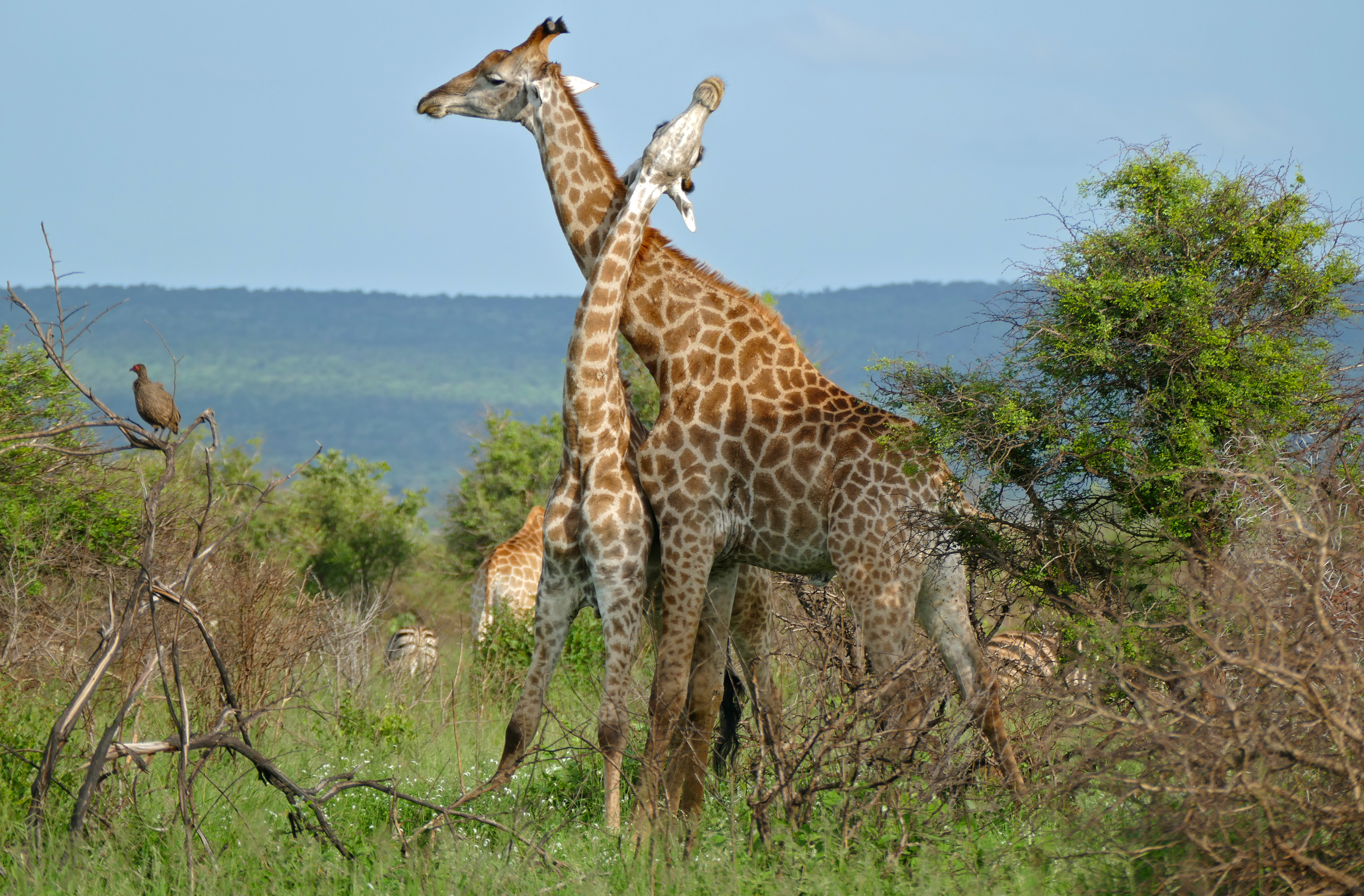 S137 Road South of Lower Sabie, Kruger NP, SOUTH AFRICA